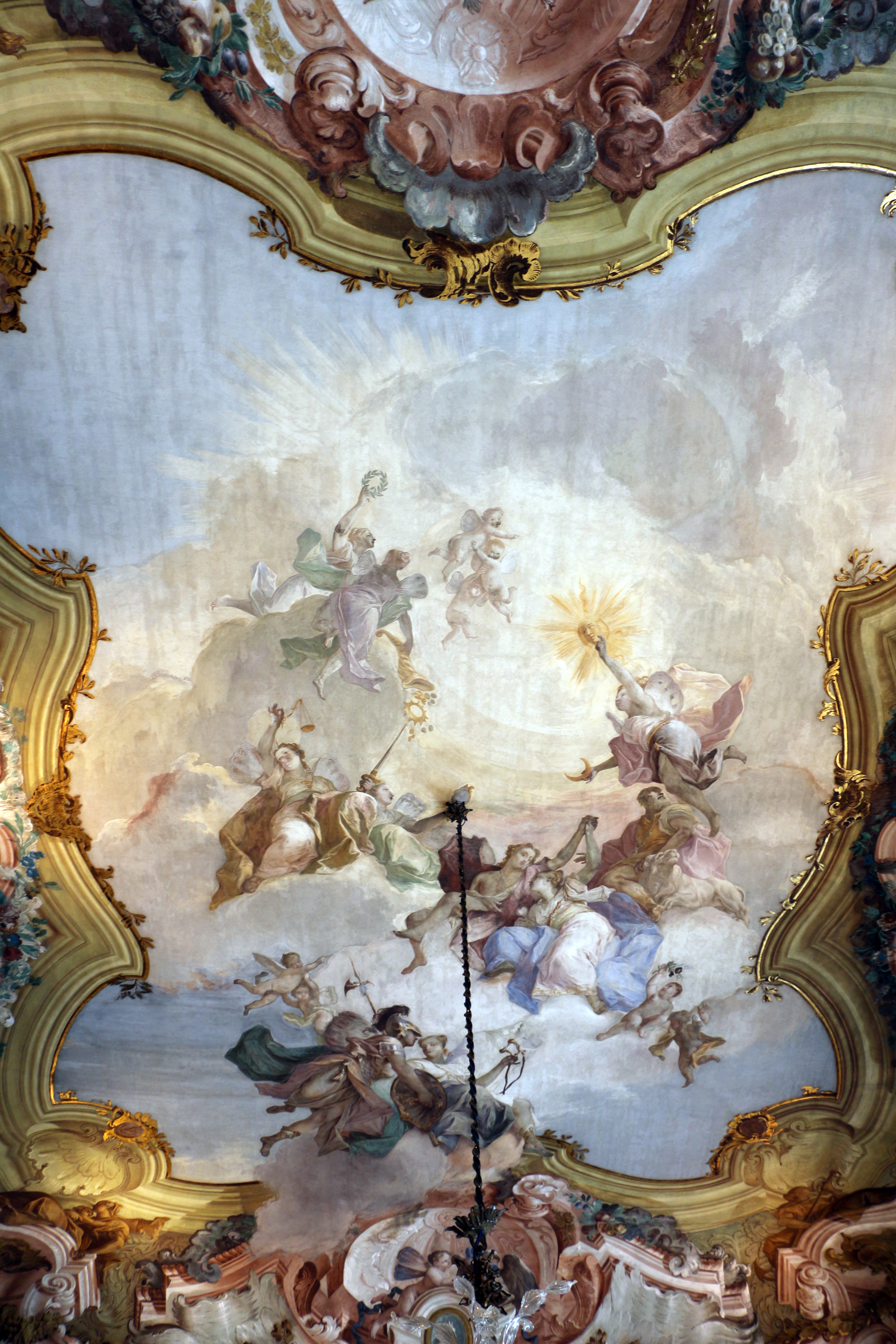 Ca' Rezzonico (Venice) - Interior